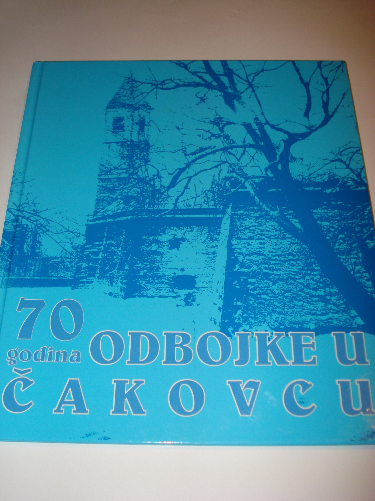 "70 years of Volleyball in Čakovec (1929-1999.)" written by group of authors - book cover; Publisher: "Zrinski" Inc. (printing company), Čakovec, Croatia, October 2000.